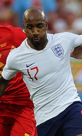 Fabian Delph playing for England against Belgium at the 2018 FIFA World Cup